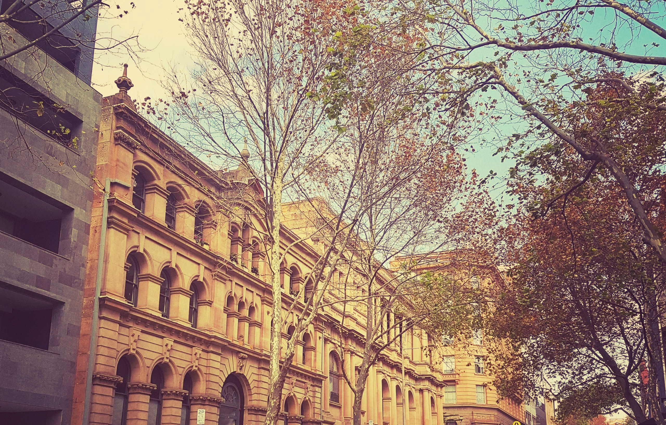 A side view of Newcastle Post Office in Newcastle NSW looking up front Scott St.